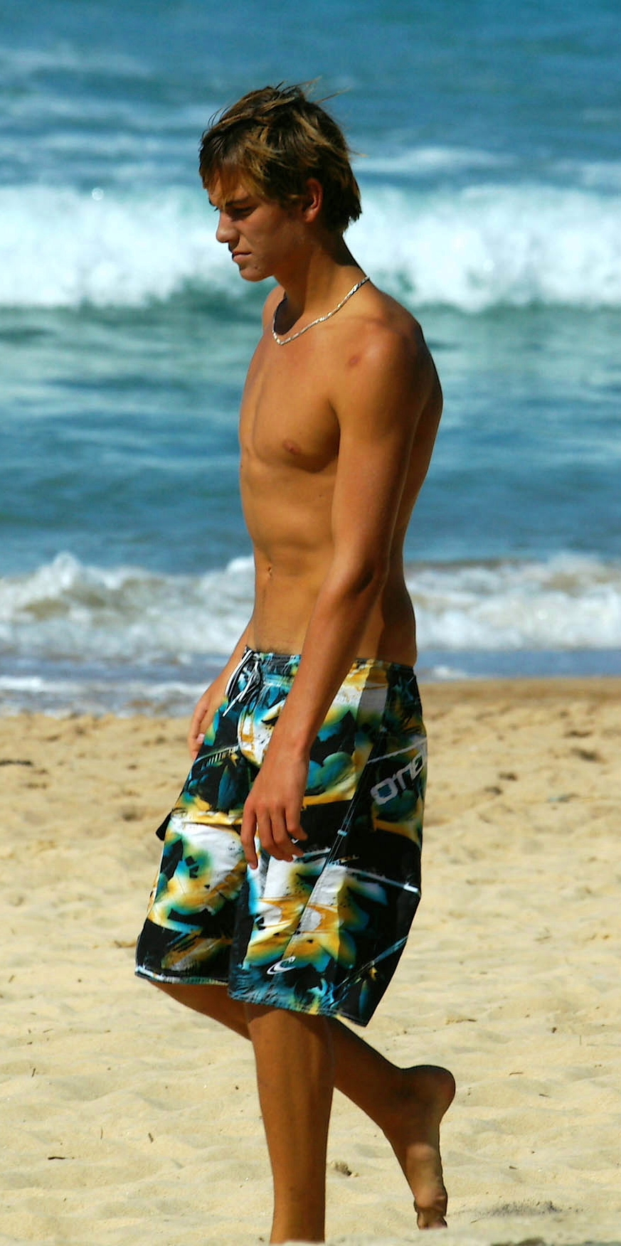 Shirtless guy in board shorts.